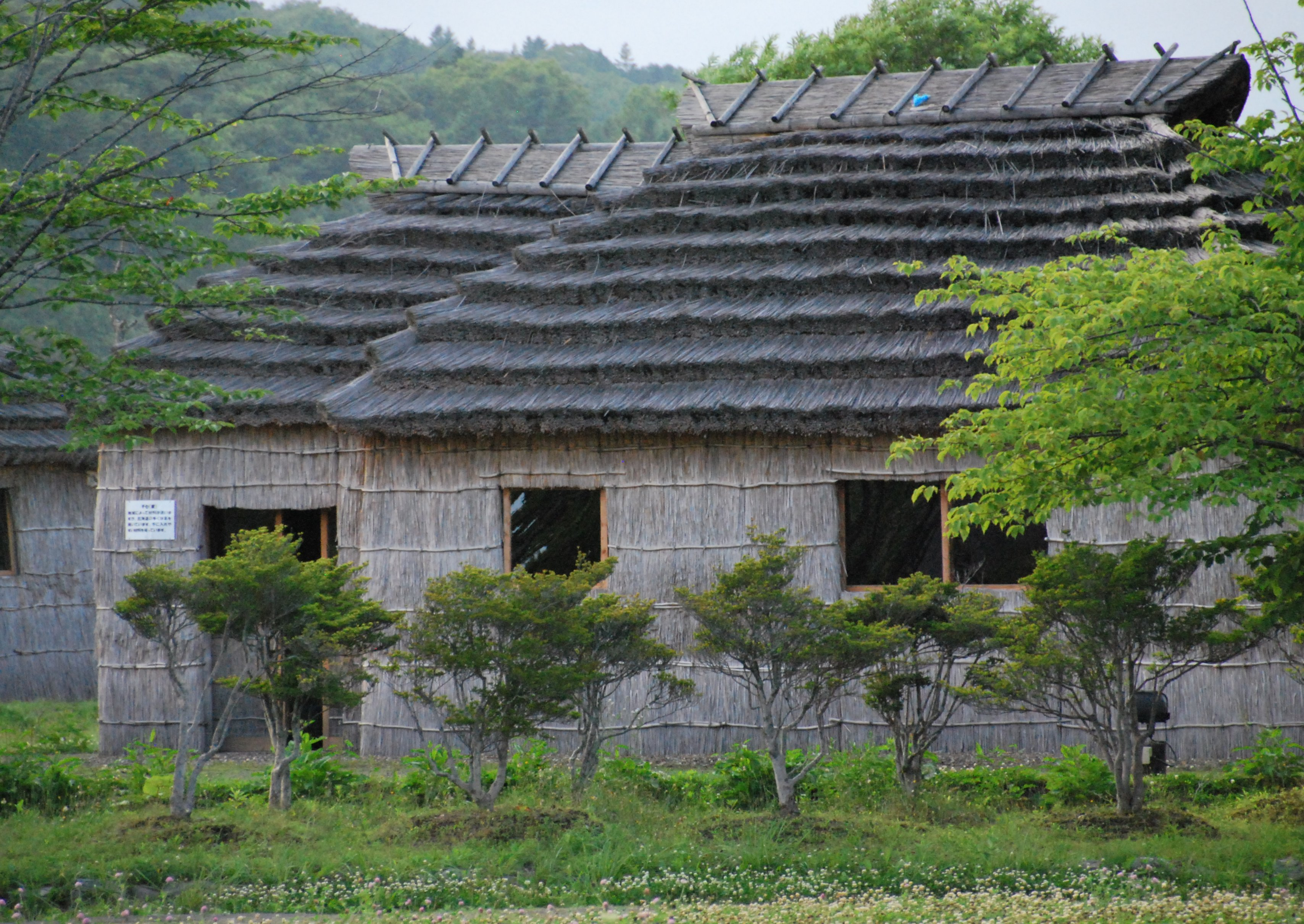 Restored Ainu lodgings at the Ainu Museum in Shiraoi, Hokkaido